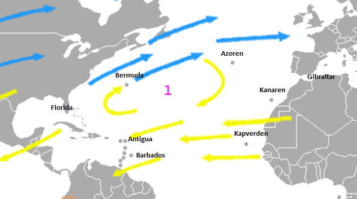 Wind system in North Atlantic